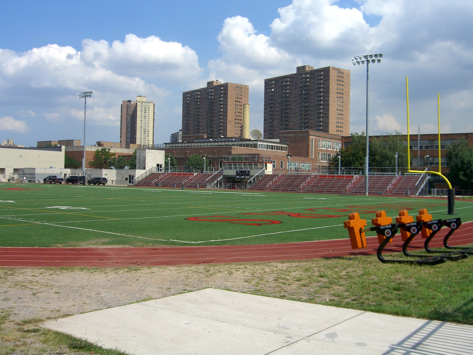 The athletic field of Memorial High School in West New York, New Jersey.